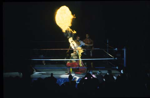 I was going thru my old wrestling slides. Found this one of 'Ricky Steamboat' but at the time of the shoot he was going by a different name...possibly the Dragon. I literally have thousands of slides from the 80's. Many of the wrestlers have died either from accidents or steroid use.